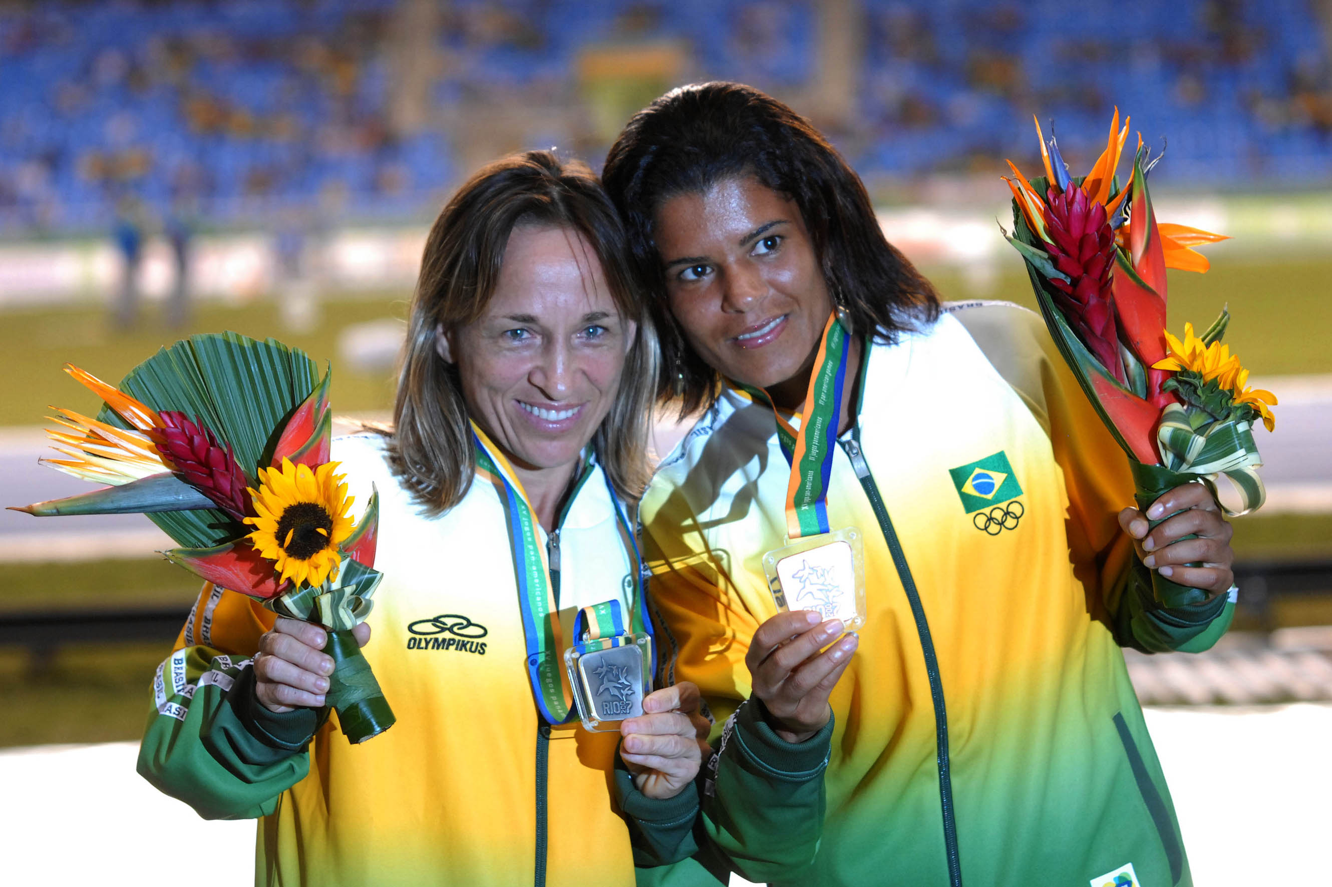 Brazilian marathoners Marcia Narloch (left) and Sirlene Pinho won silver and bronze respectively at the 2007 Pan American Games' Women's Marathon in Rio de Janeiro.